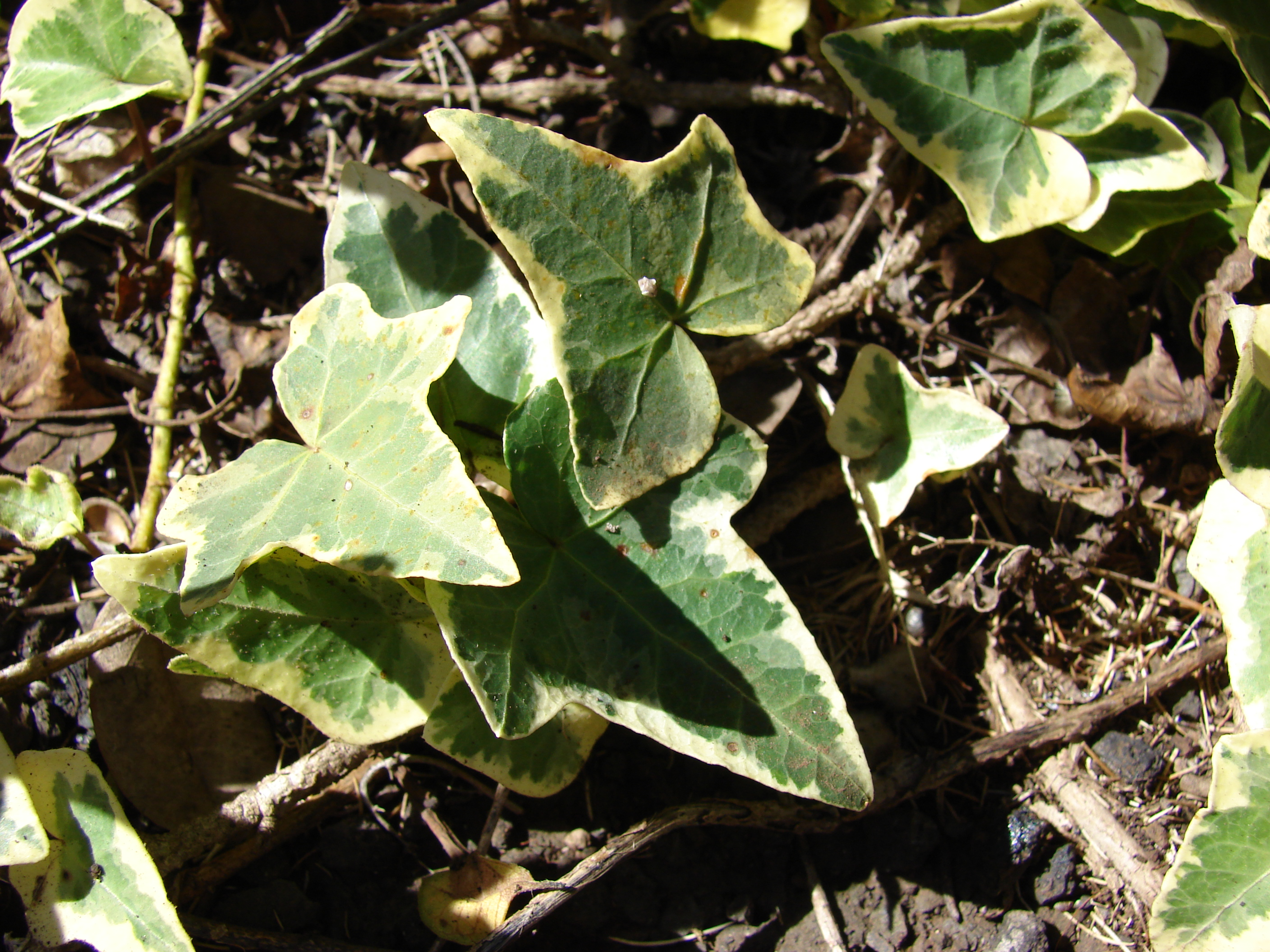 Hedera helix (English ivy) Variegated leaves at Enchanting Floral Gardens of Kula, Maui, Hawaii. October 24, 2007 [ #071024-9905 - Image Use Policy